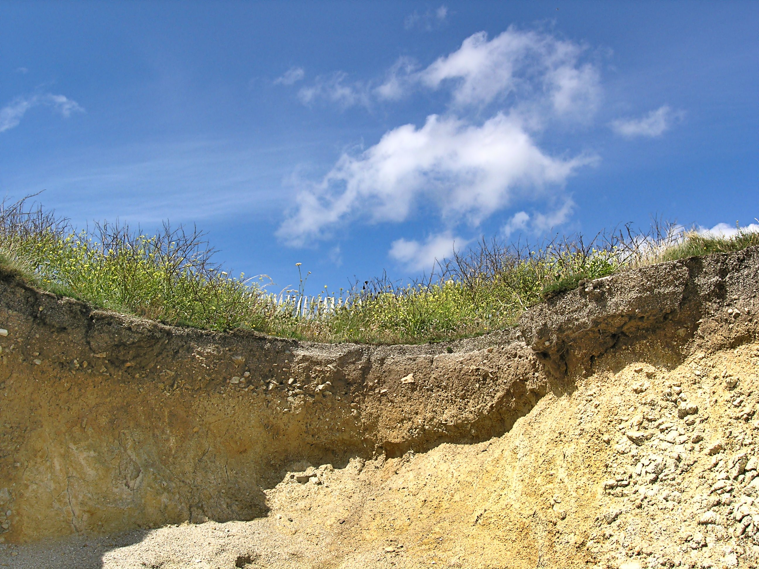 Bay near Trévignon (Trégunc, France)